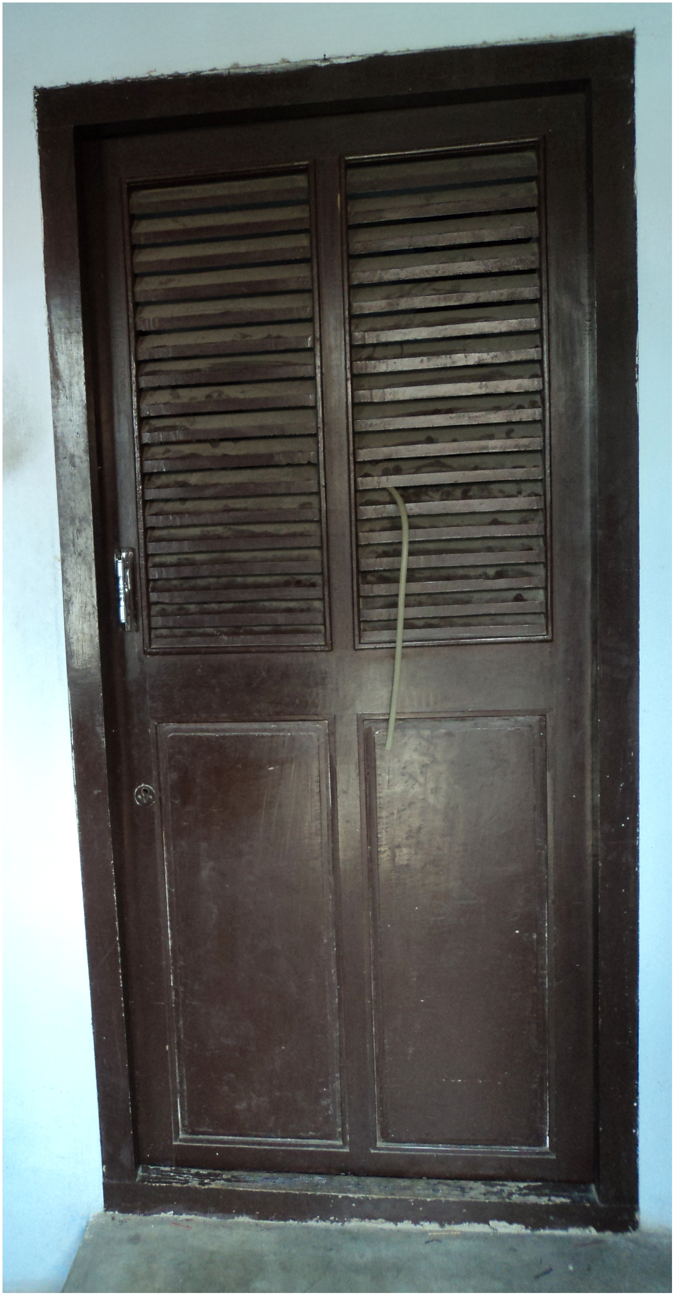 one of the door types in Tamil Nadu